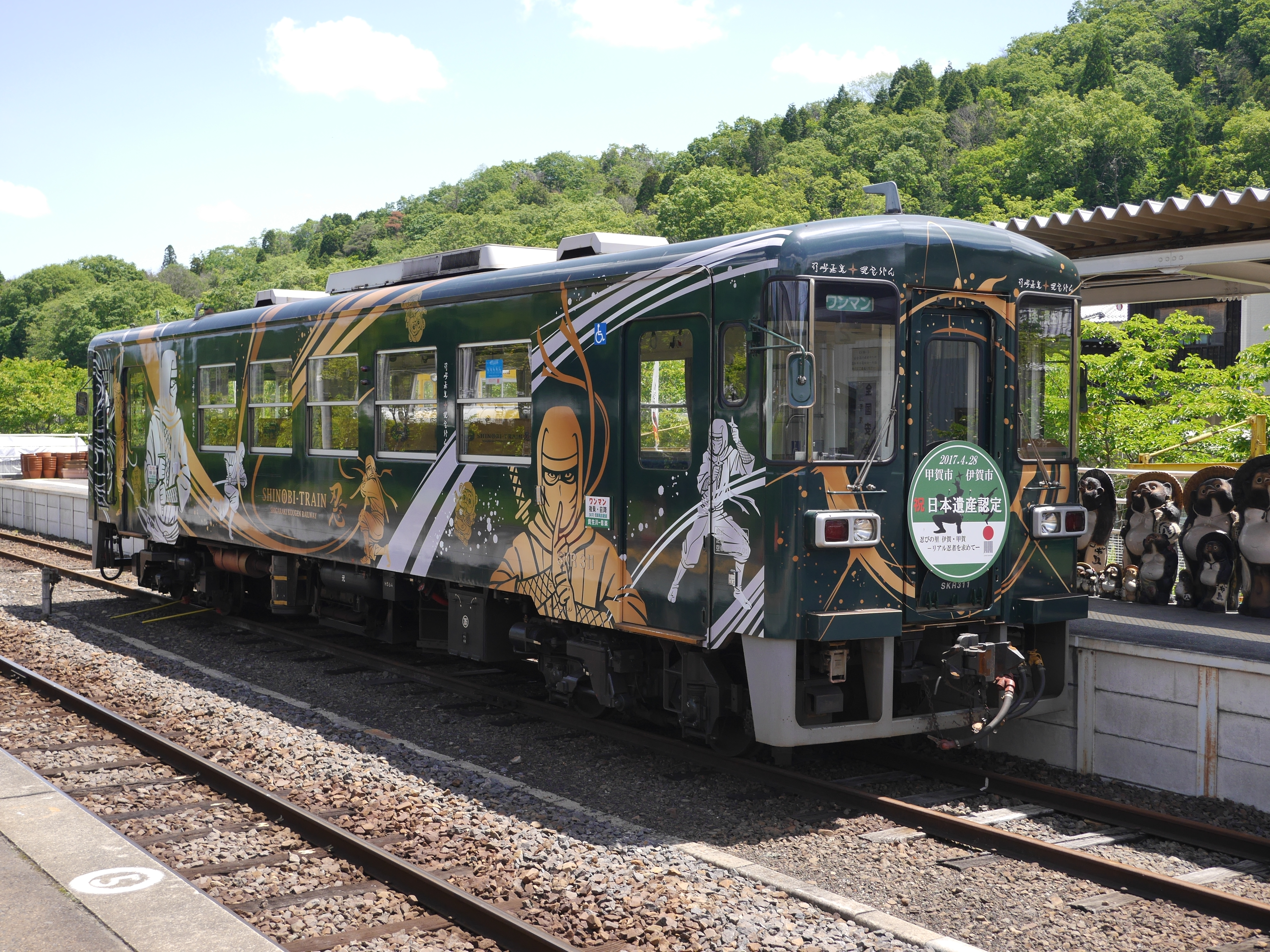 Shigaraki Kogen Railway SKR 311 "Shinobi" wrapping